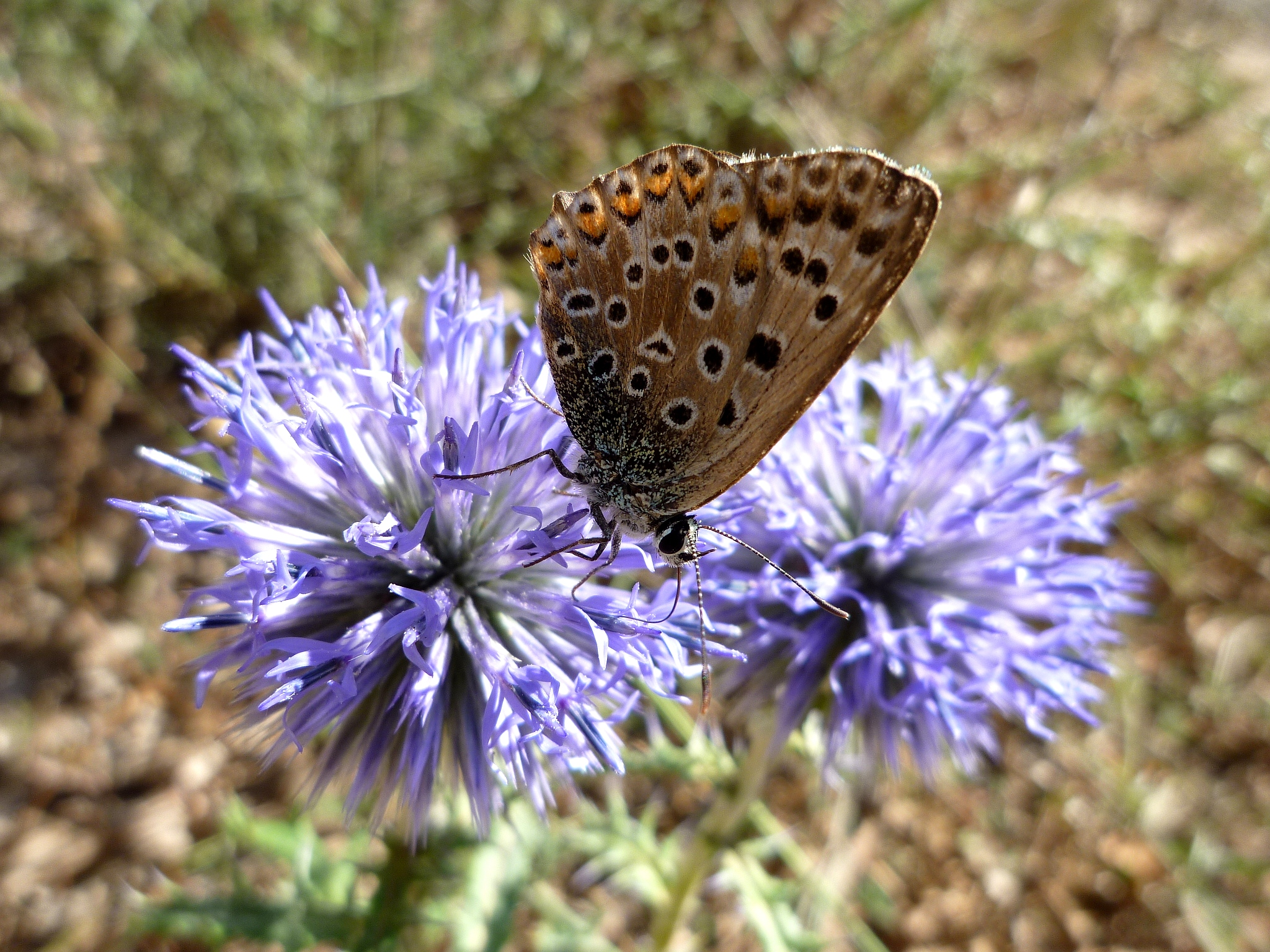 Echinops ritro. In Torà (Segarra- Catalunya). On 570 m. altitude